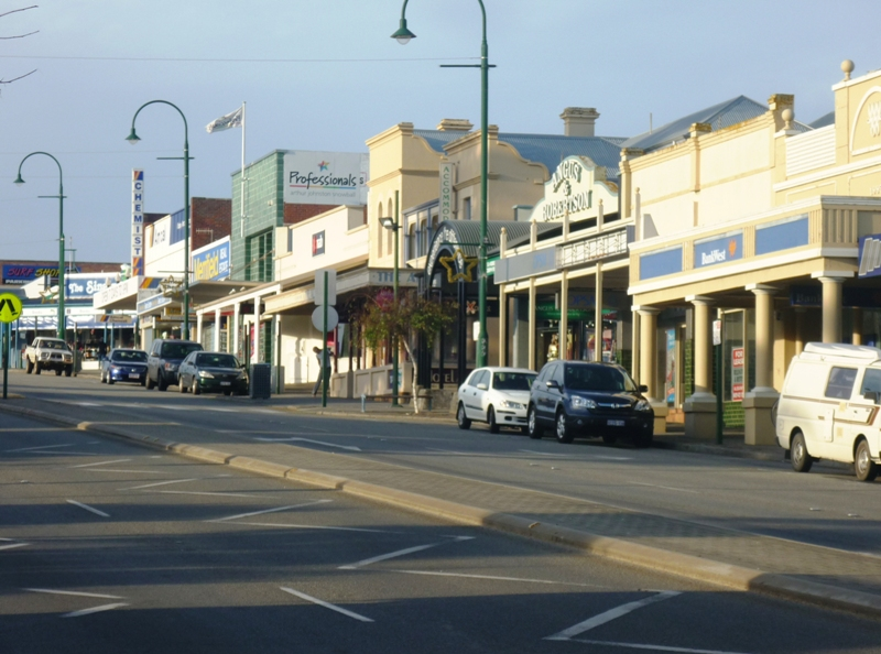 A view of York Street in Albany, Western Australia